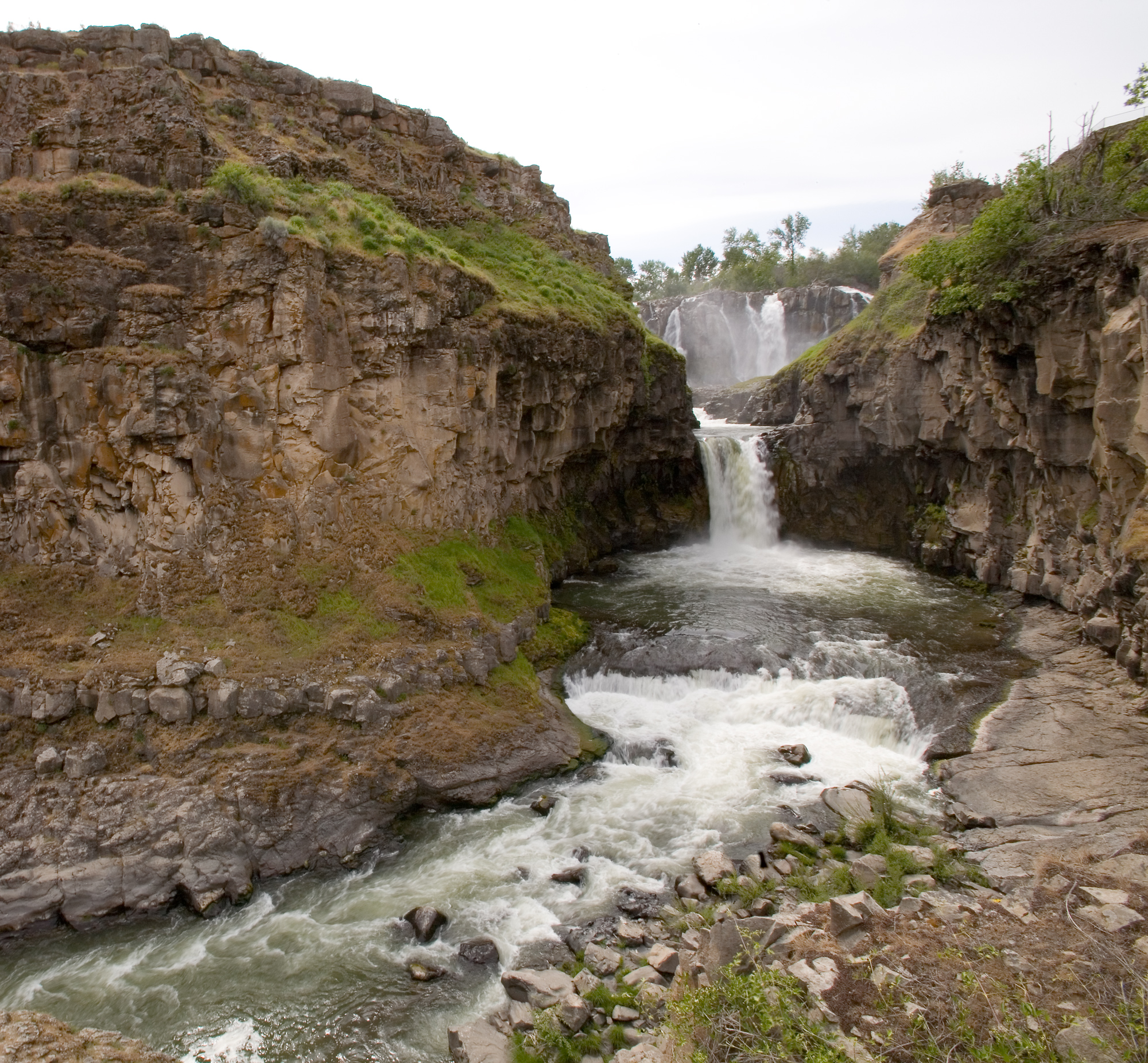 White River Falls in Eastern Oregon.